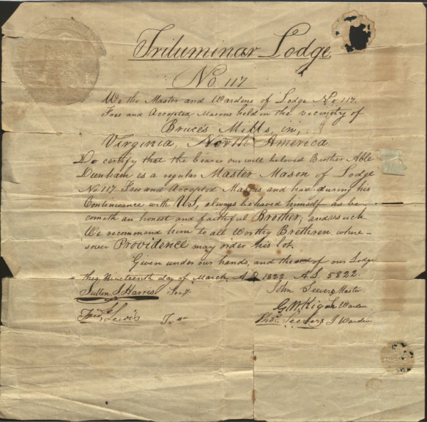 Masonic membership certificate for Able Dunham at Triluminar Lodge No. 117, in the vicinity of Bruce's Mill, Virginia, on March 19, 1822.